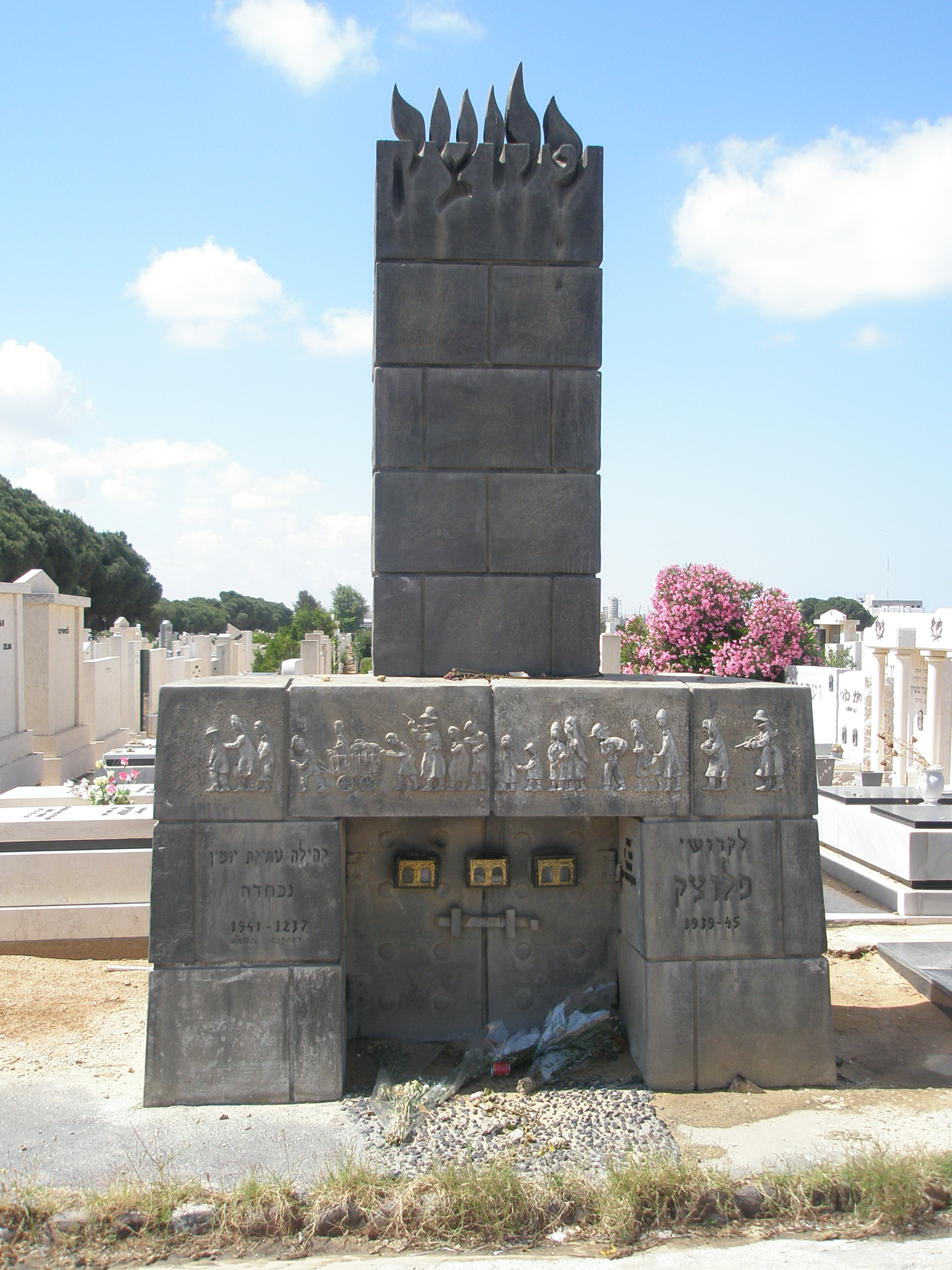 Maniewice memorial at Holon Cemetery